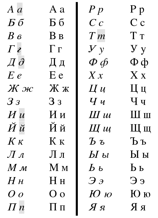 Table that shows the differences between Russian cyrillic characters in italics and non-italics. In many cases, the browser does not render italic cyrillic characters correctly as "real" italics, but simply uses slanted non-italic characters. This is why this table is presented as a graphic.